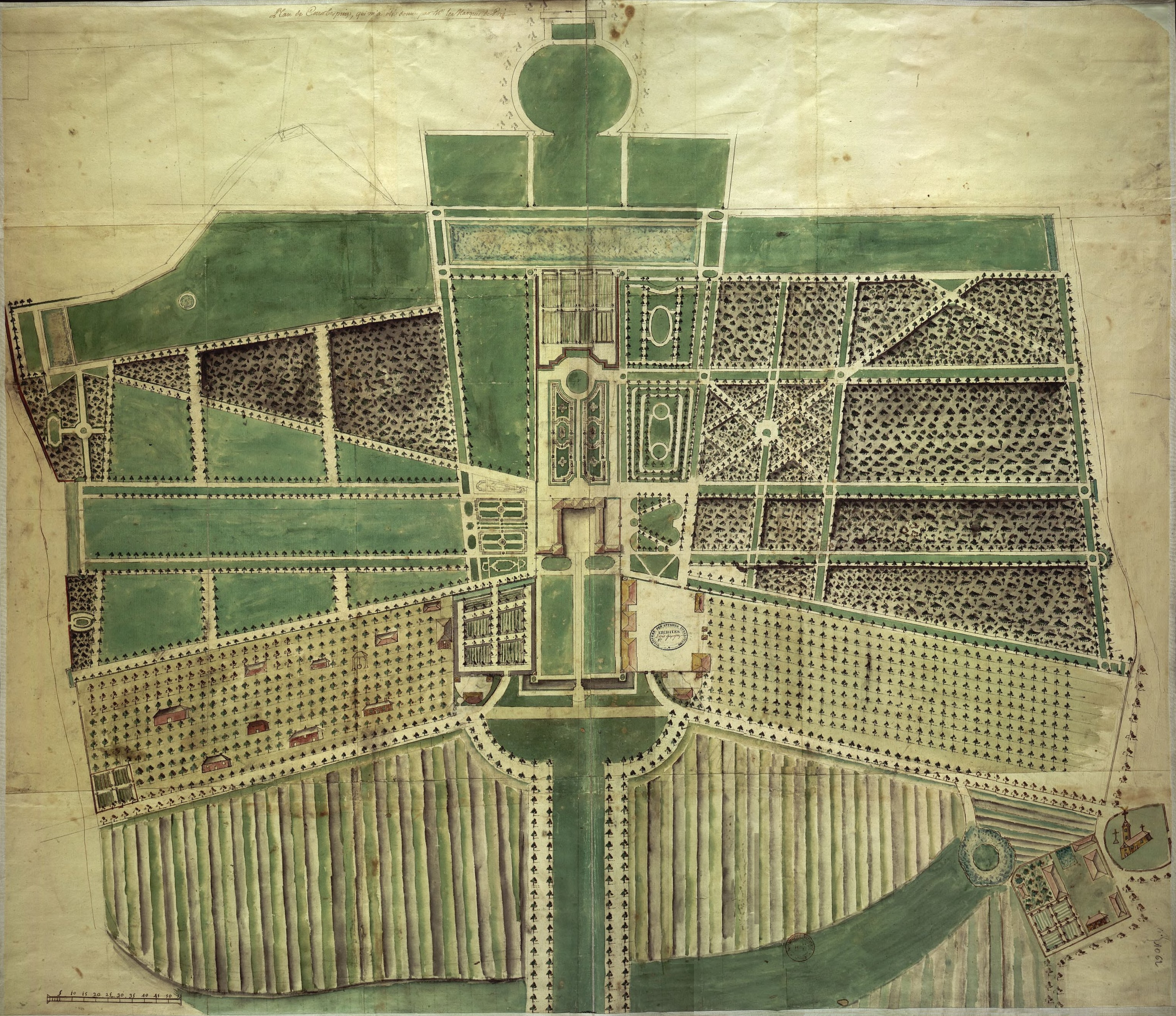 Plan of the castle and park of Courbépine (Eure, France). The original was made in the 18th century and it has the dimensions: 102 x 119 cm.